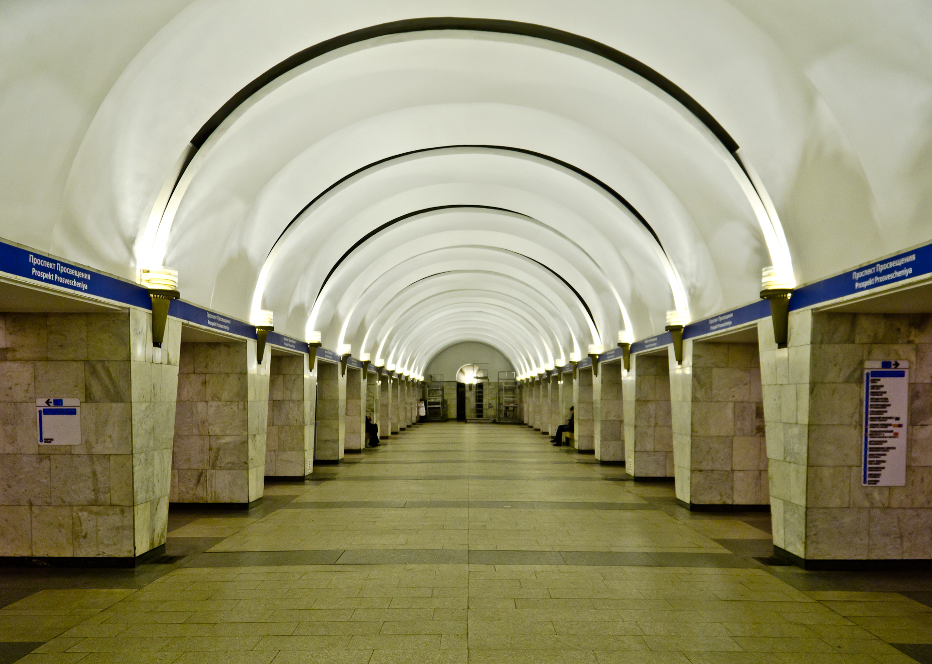 Prospekt Prosveshcheniya subway station in Saint Petersburg